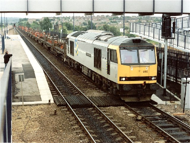 Swinton (South Yorkshire) railway station Original description: Swinton Railway Station 60050 heading north to Doncaster